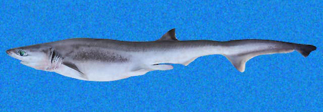 Heptranchias perlo